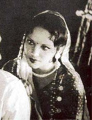 Devika Rani in Achhut Kanya (1936)